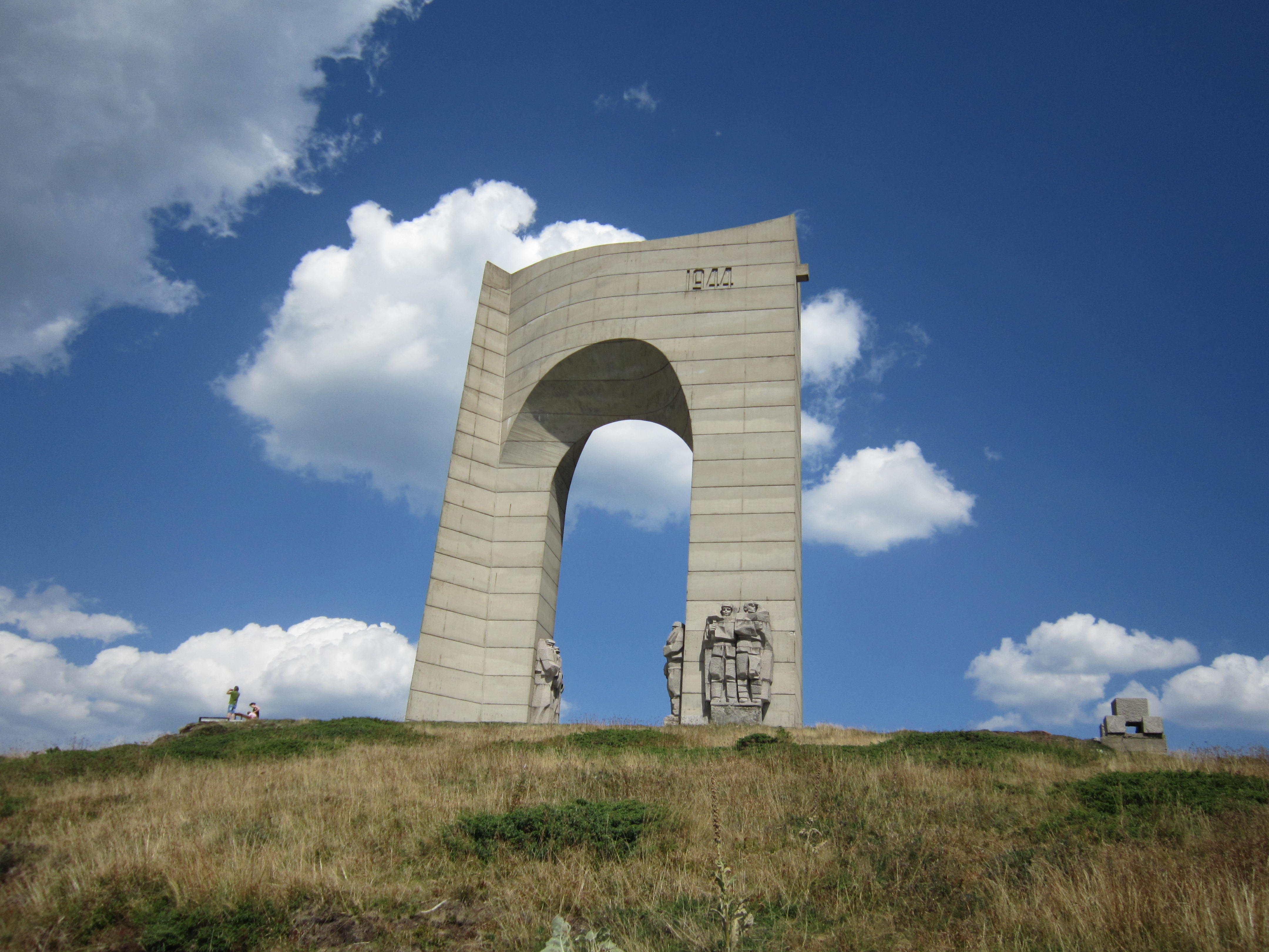 Monument "Arch of Freedom on top of the Beklemeto Pass between Troyan and Karnare, Bulgaria